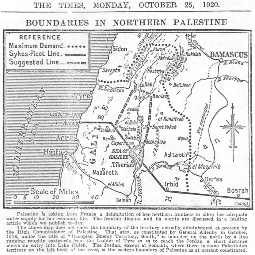 Boundaries in Northern Palestine, The Times, 25 October 1920